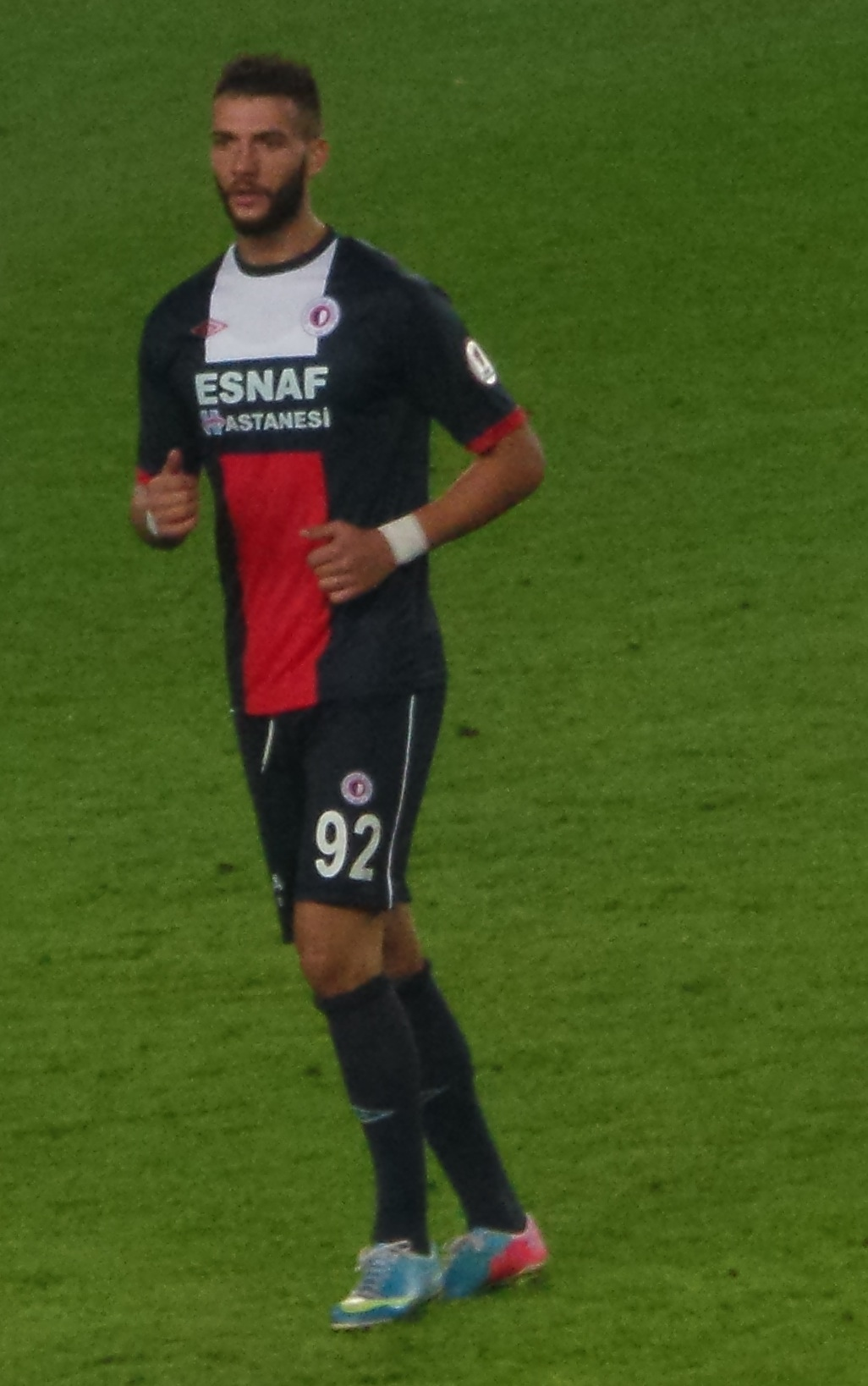 Liridon Krasniqi with Fethiye against F.B.